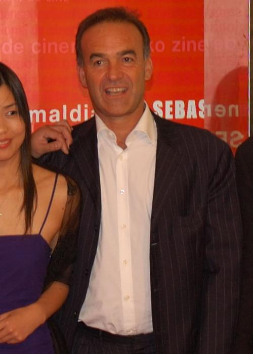 Documentary film maker Nick Broomfield in 2005.